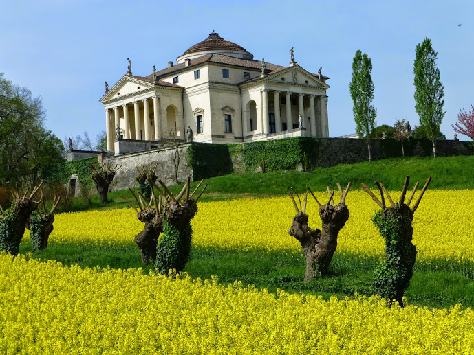 Vicenza - (World Heritage List) - Villa Almerico Capra (La Rotonda)